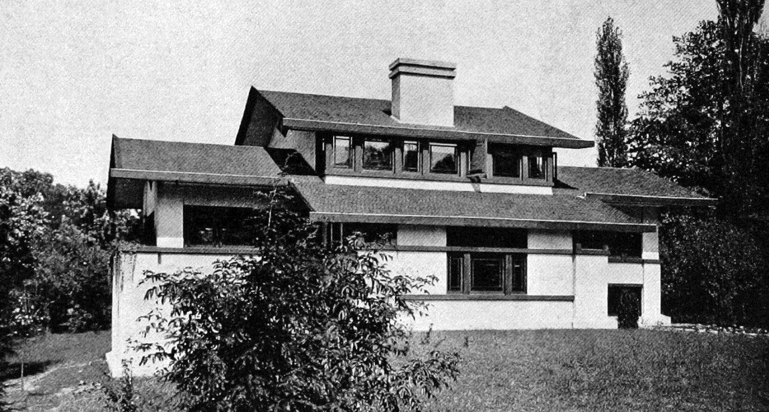 designed by Prairie School architect Walter Burley Griffin in 1909 for his brother; located in Edwardsville, Illinois